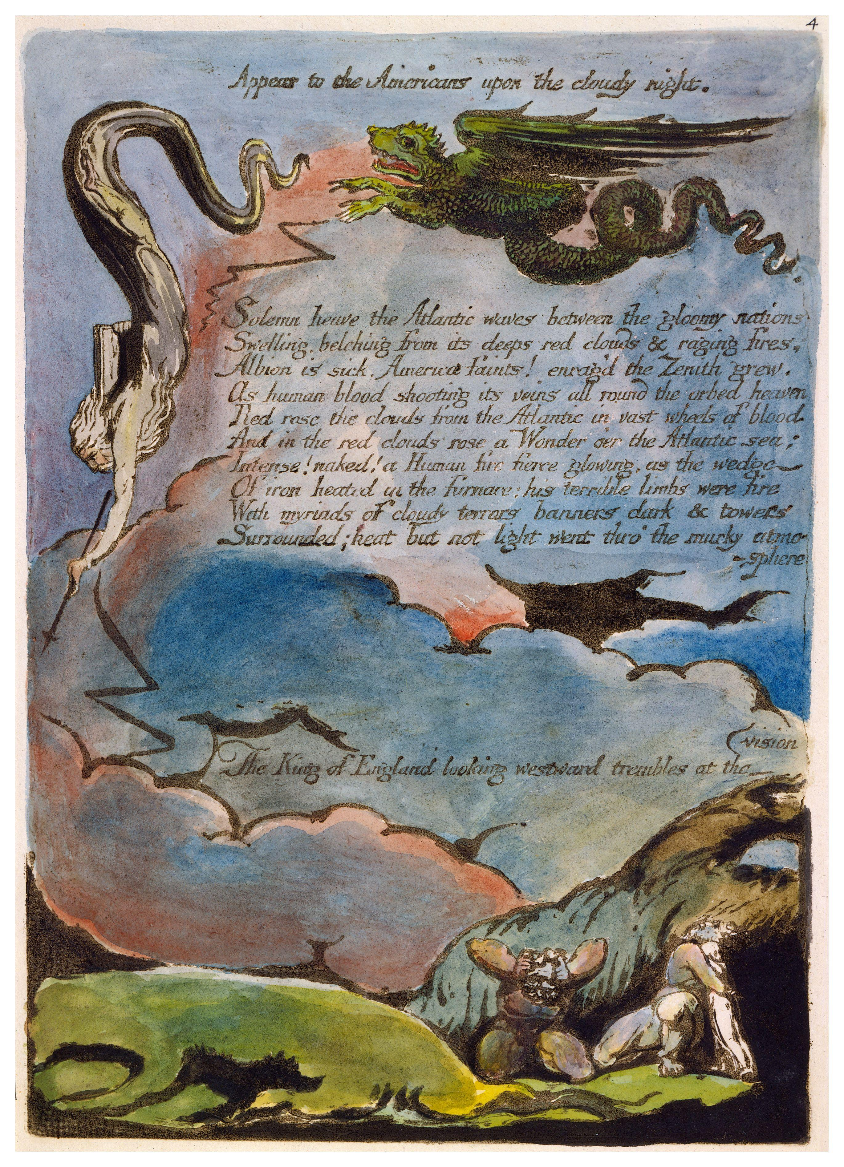 Plate from America a Prophecy, copy A, in the collection of the Morgan Library. Relief etching with hand coloring and white line etching. Leaf size approx. 32 x 24 cm